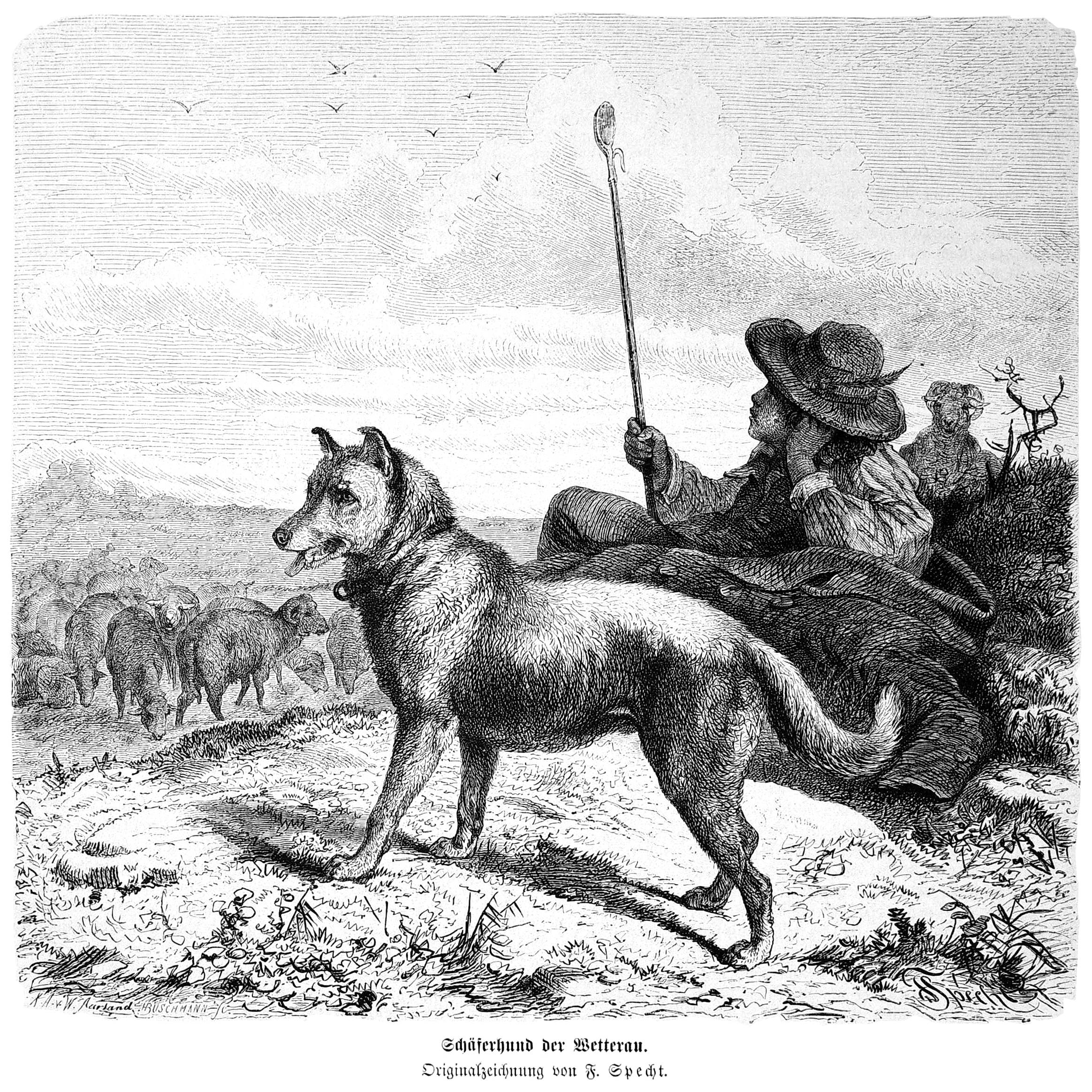 Image from page 761 of book Die Gartenlaube, 1872.